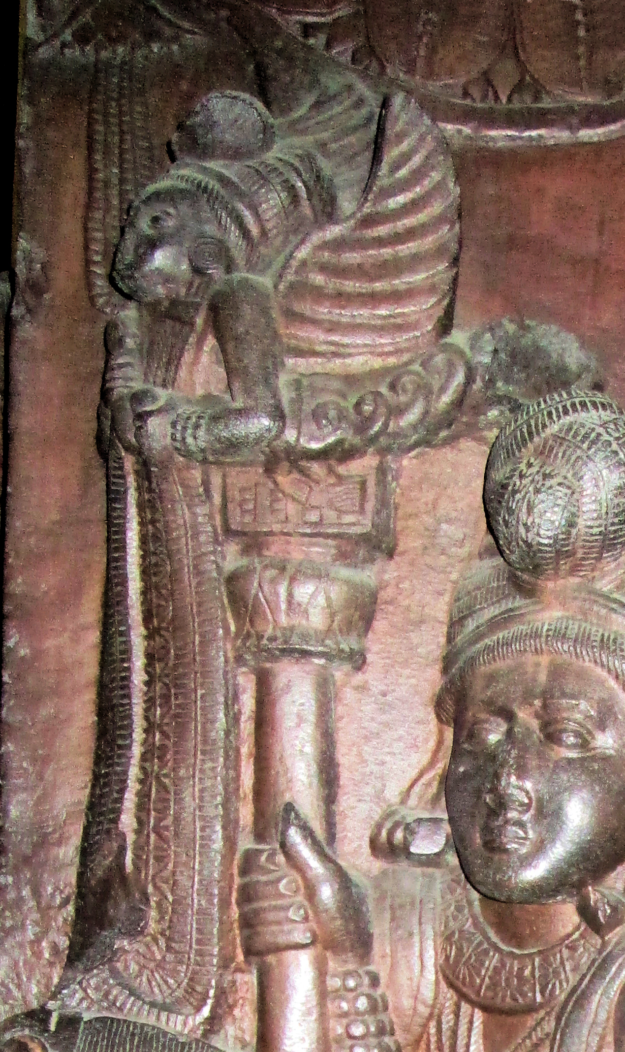 Bharhut portable Garuda pillar. Another image